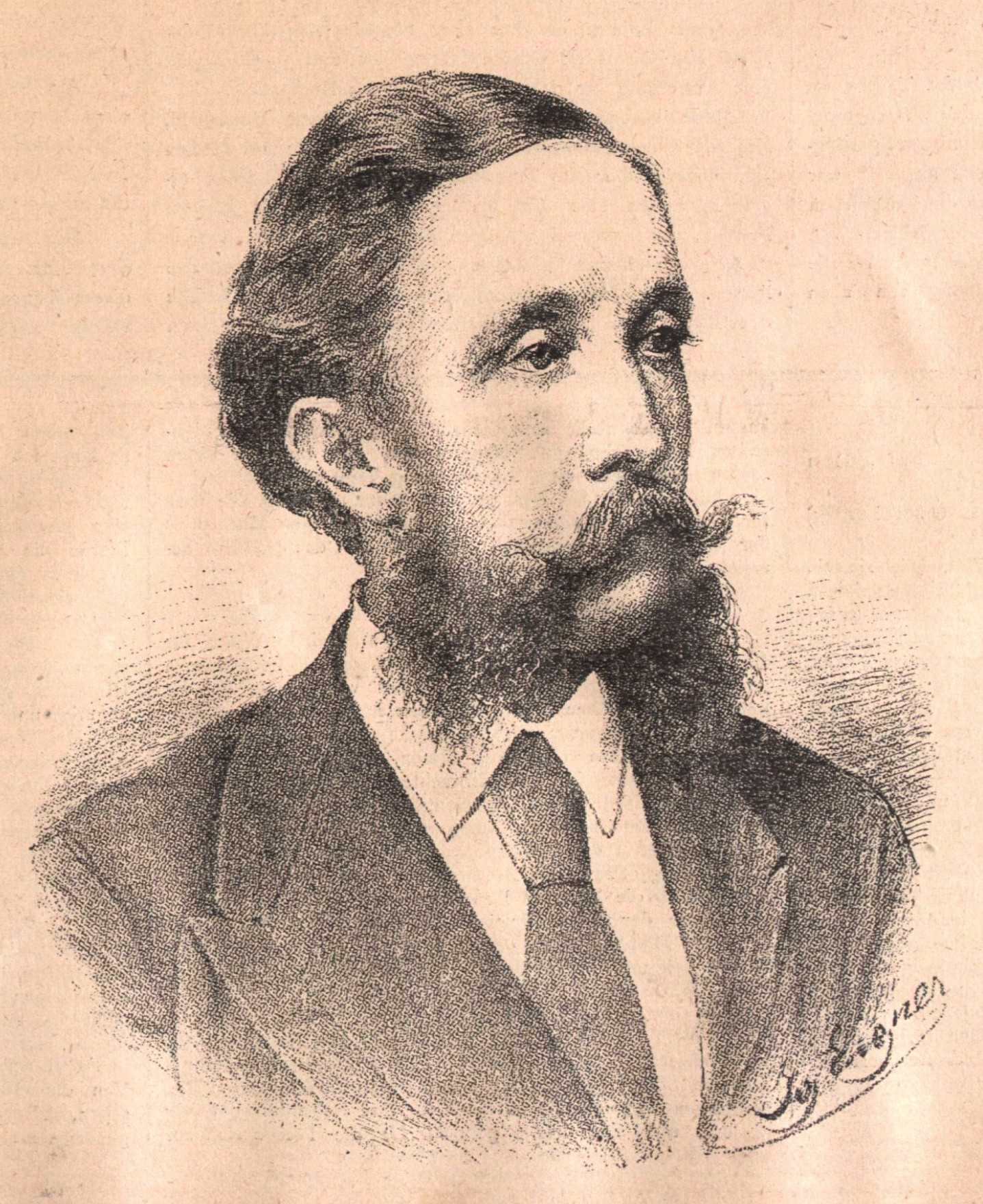 Portrait of Clemens Maria zu Toerring-Jettenbach (1826-1891), Bavarian nobleman and public official.